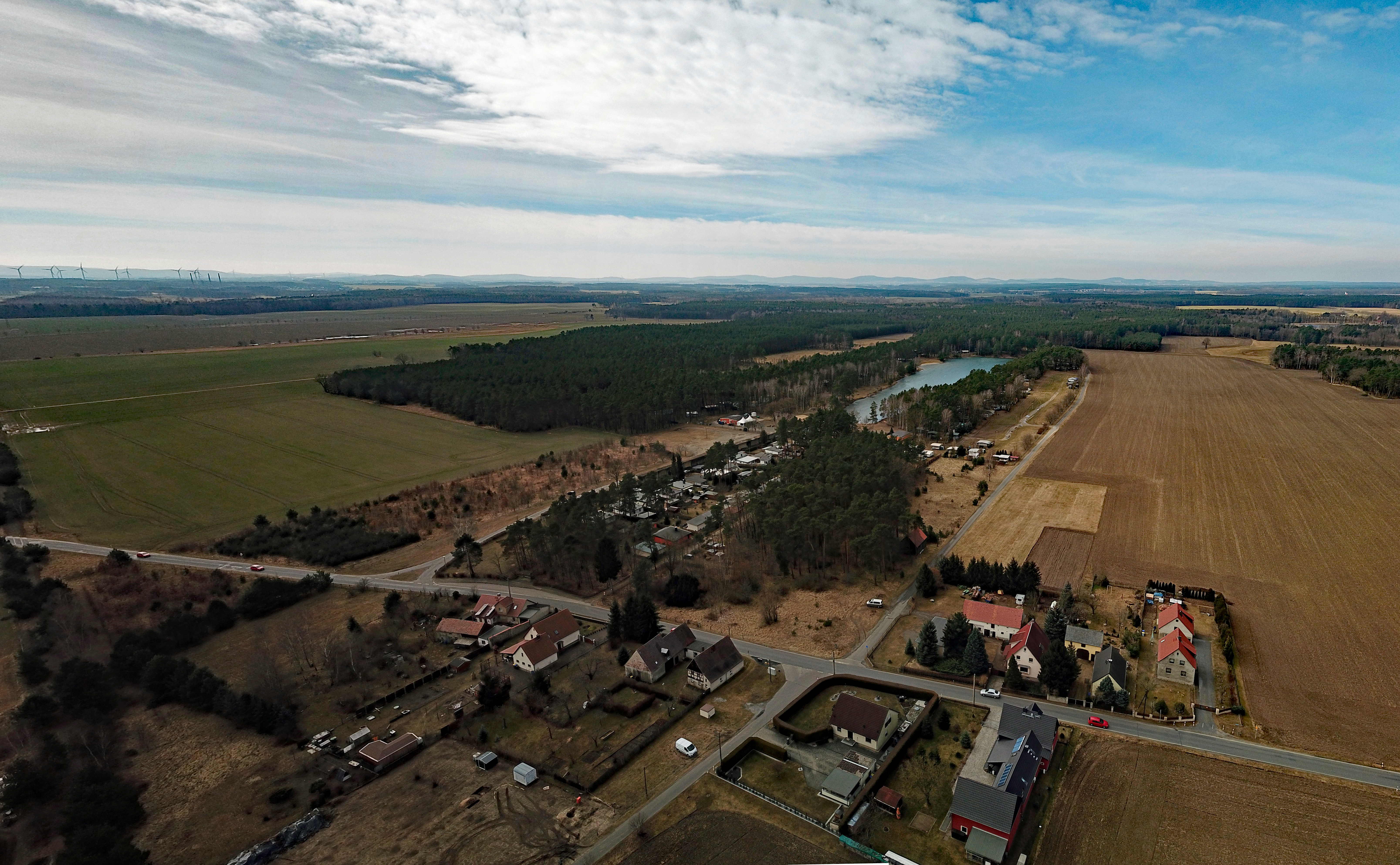 Niesendorf (Königswartha, Saxony, Germany) Hornjoserbsce: Powětrowy wobraz Nižeje Wsy